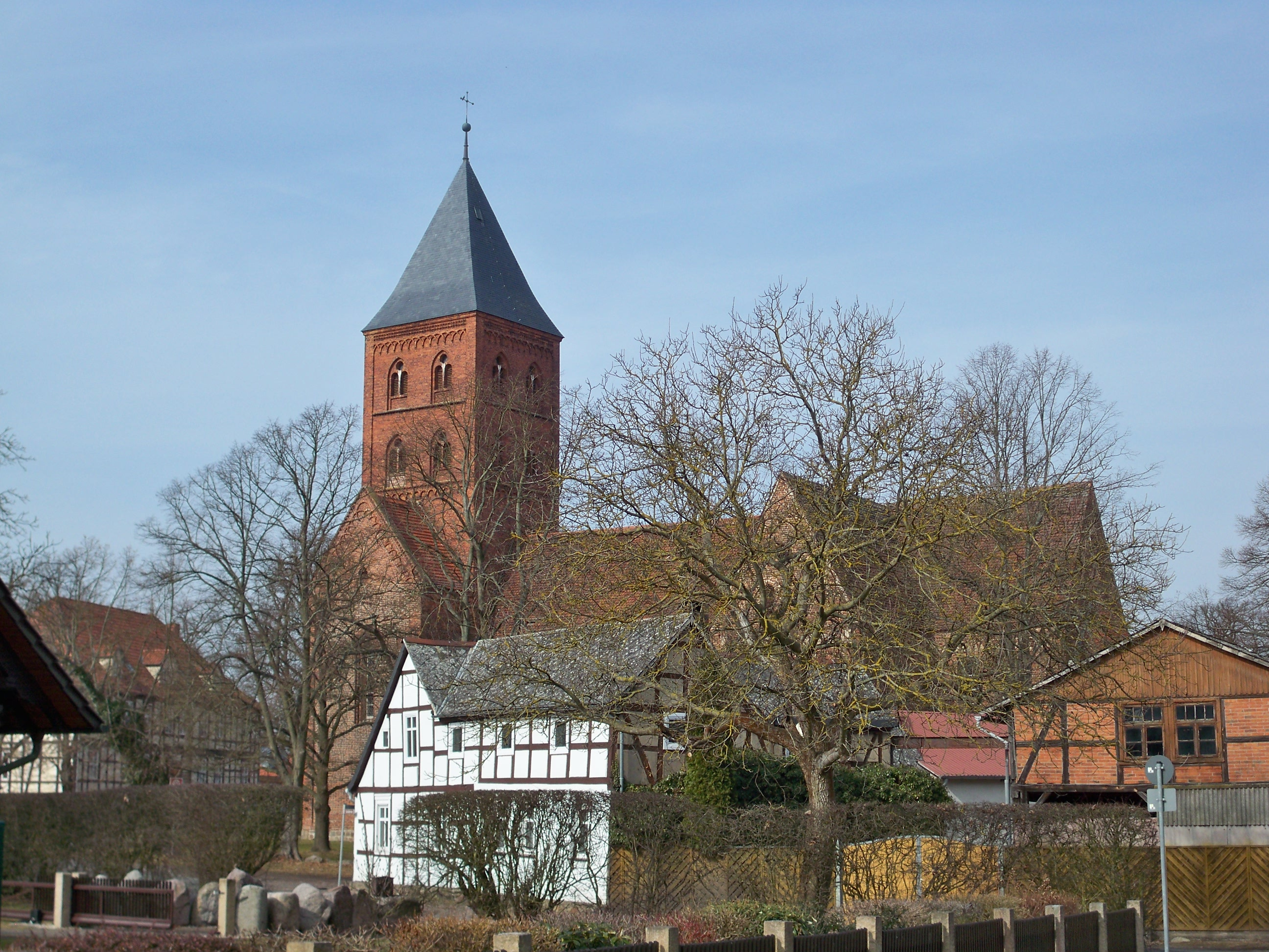 Diesdorf, Saxony-Anhalt, church from south